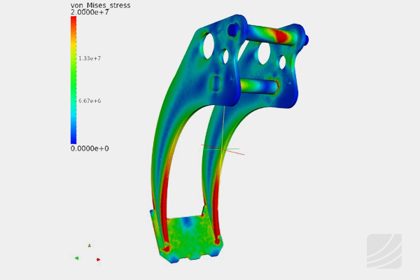 In this project, a static structural analysis of a gripper arm was demonstrated with SimScale.